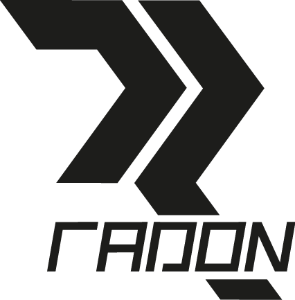 Current logo for german company Radon Bikes (2018)